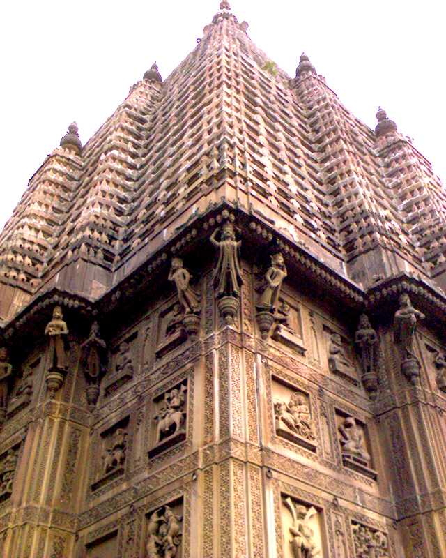 Old Durga Temple of Banaras